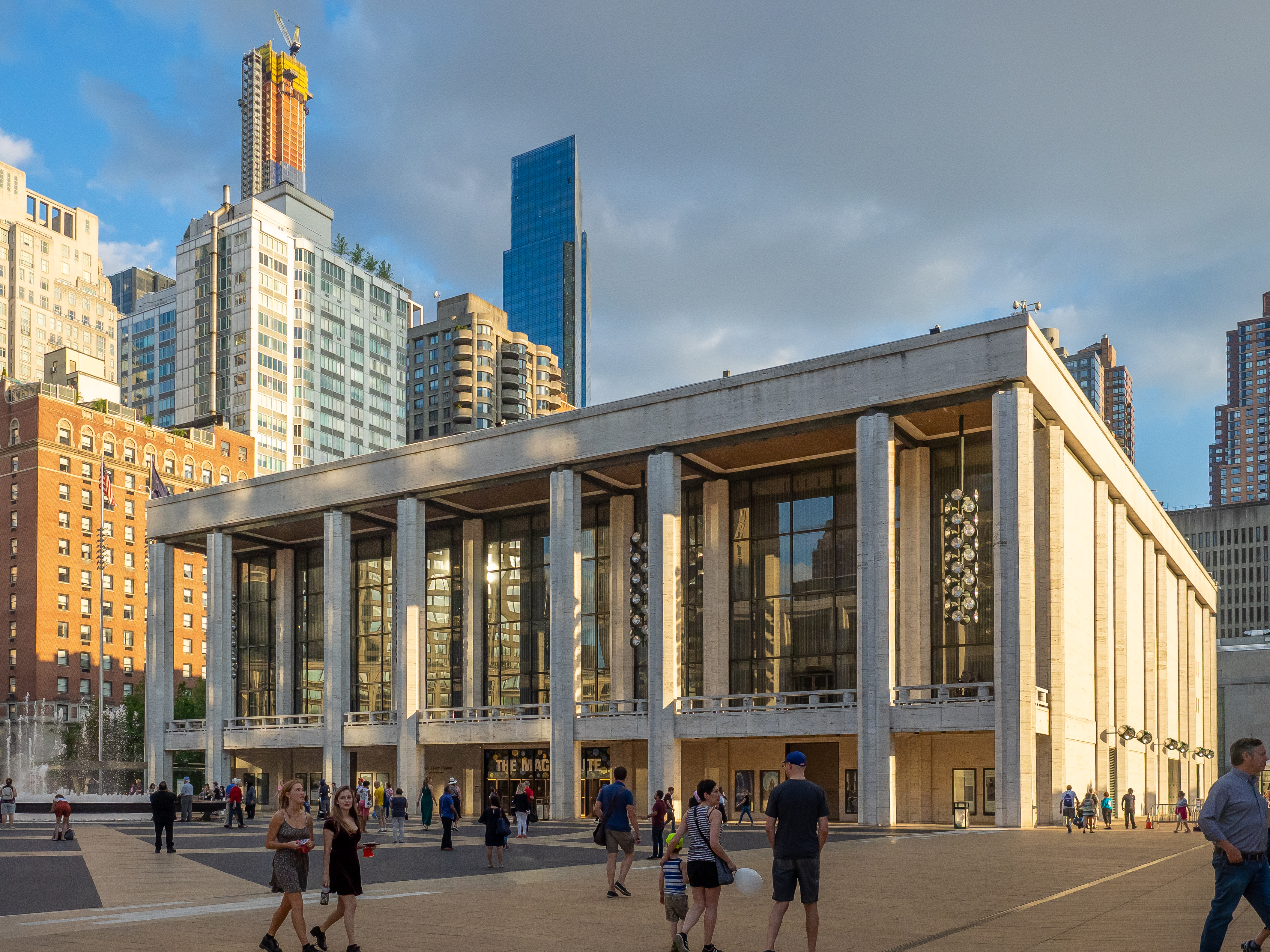 Upper West Side, Manhattan, New York City